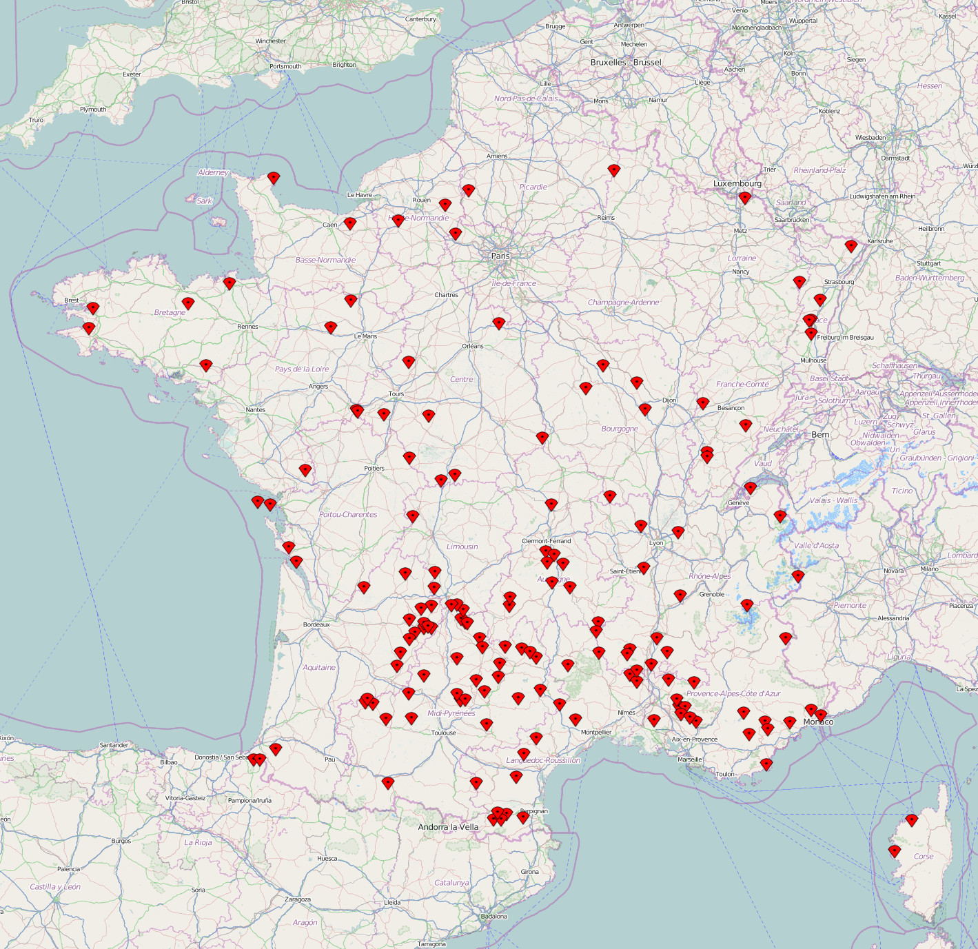 Map of the the Nicest villages in France.